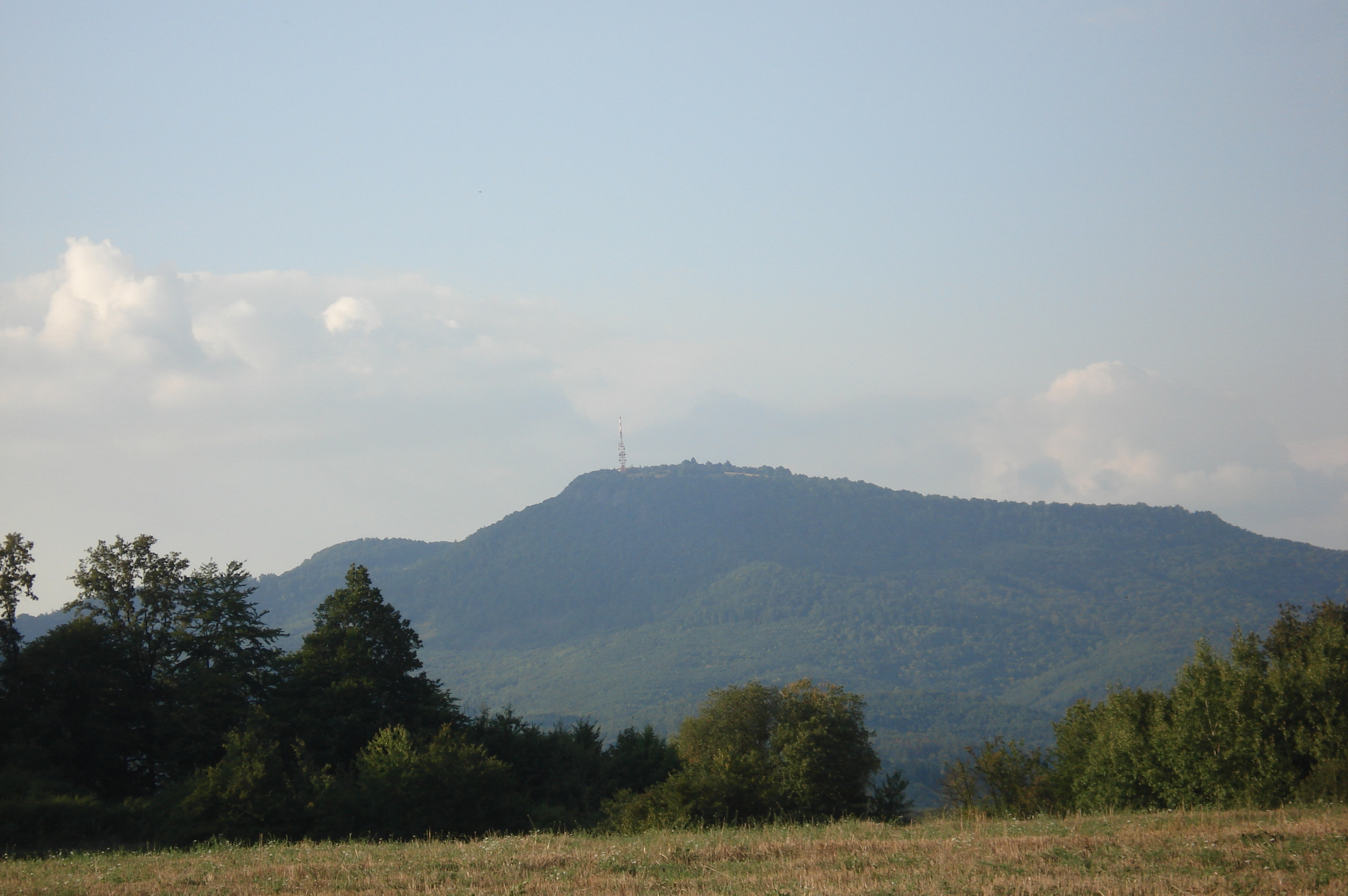 Sitno